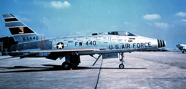 North American F-100D-85-NH Super Sabre Serial 56-3440 of the 308th Tactical fighter Squadron, Homestead Air Force Base.